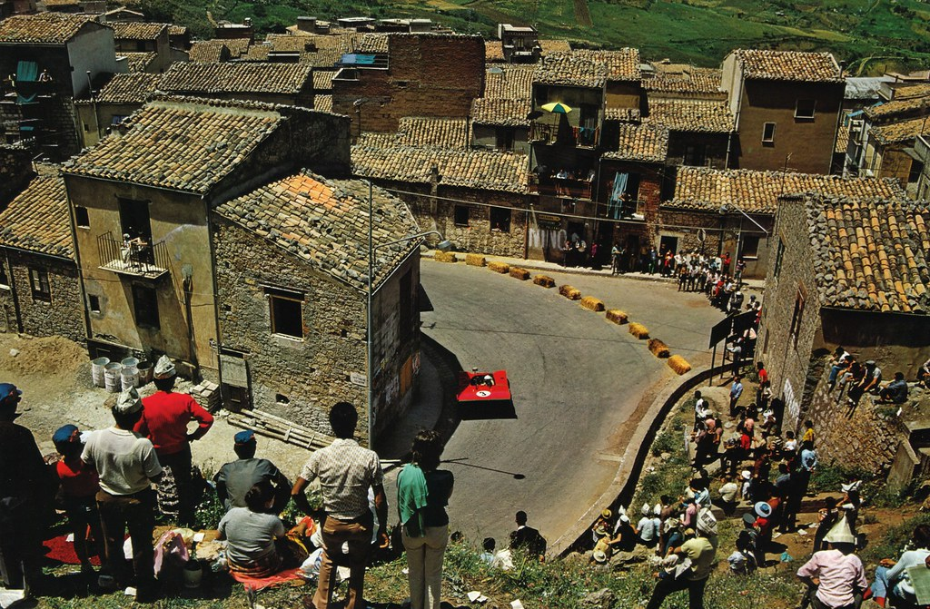 Collesano curve, Sicilia. Entry #3 and WINNER at Targa Florio on 21 May 1972 was the 1972 Ferrari 312 PB s/n 0884 driven by Arturo Merzario and Sandro Munari. [1]